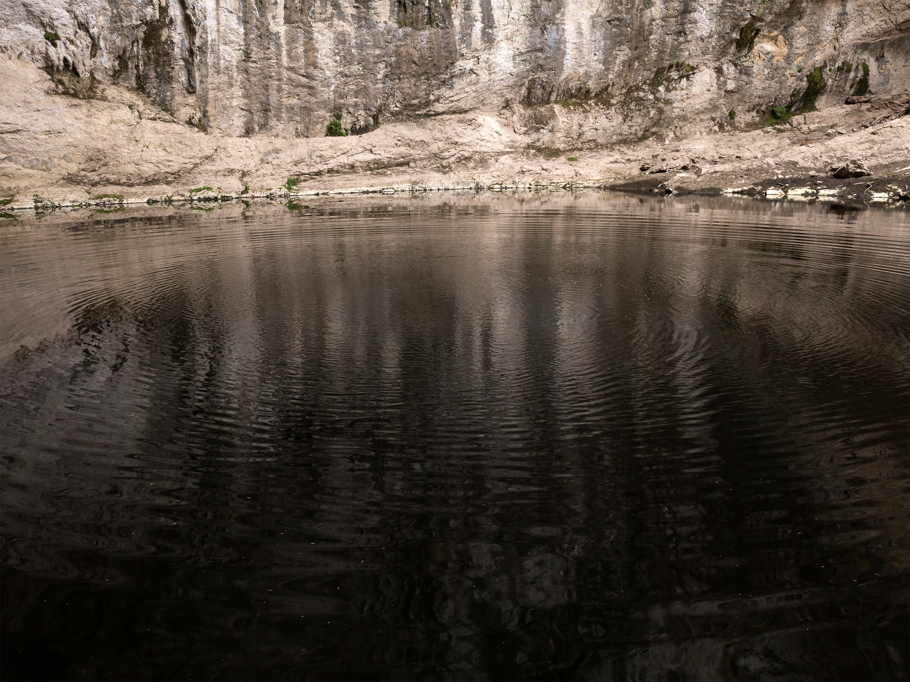 Pischina Urtaddala, Sardinia